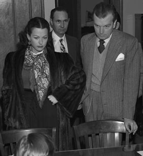 Actress Hedy LaMarr and John Loder in courtroom, confronting men suspected of robbing their house in Los Angeles, Calif., 1946